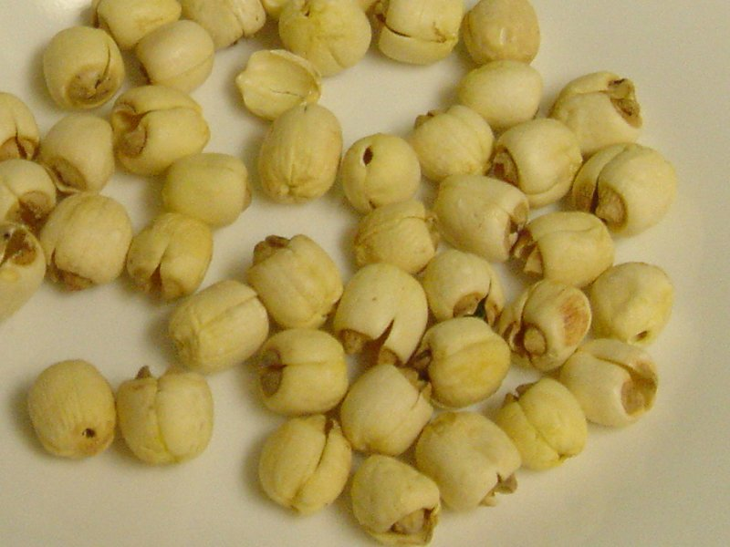 author:User:Sjschen, Item: Dried lotus seeds (蓮子)